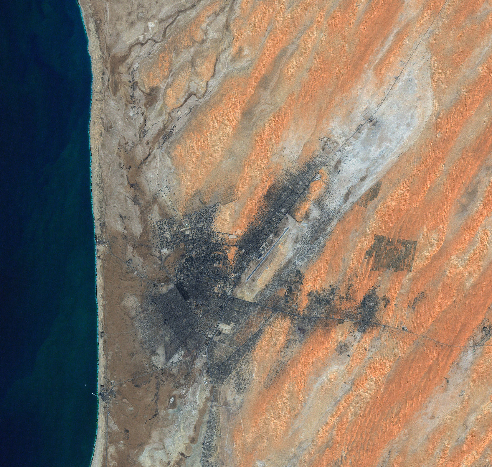 Satellite image of Nouakchott, Mauritania, showing sand dunes threatening to take over the city.